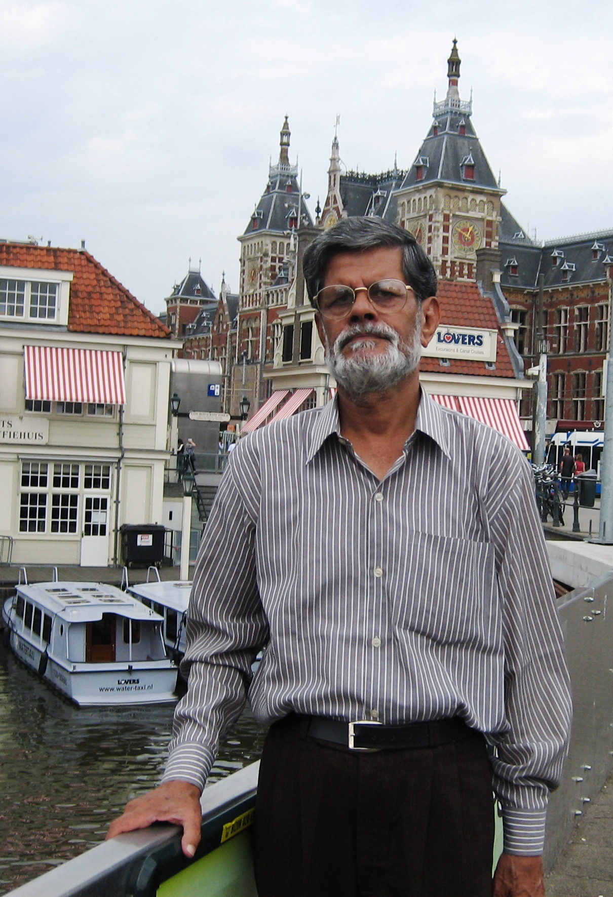 Malay in front of the Railway Station in Amsterdam